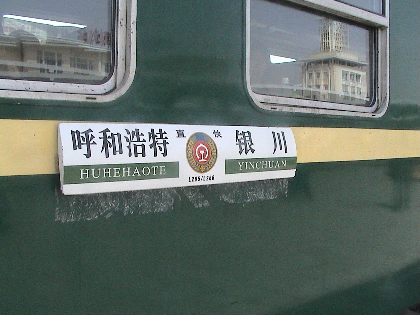 Hohhot railway station to Yinchuan railway station 北京时间2006年04月22日12时22分09秒摄于包头东站。 This image was taken by User:Yaohua2000 at 2006-04-22 04:22:09 UTC.